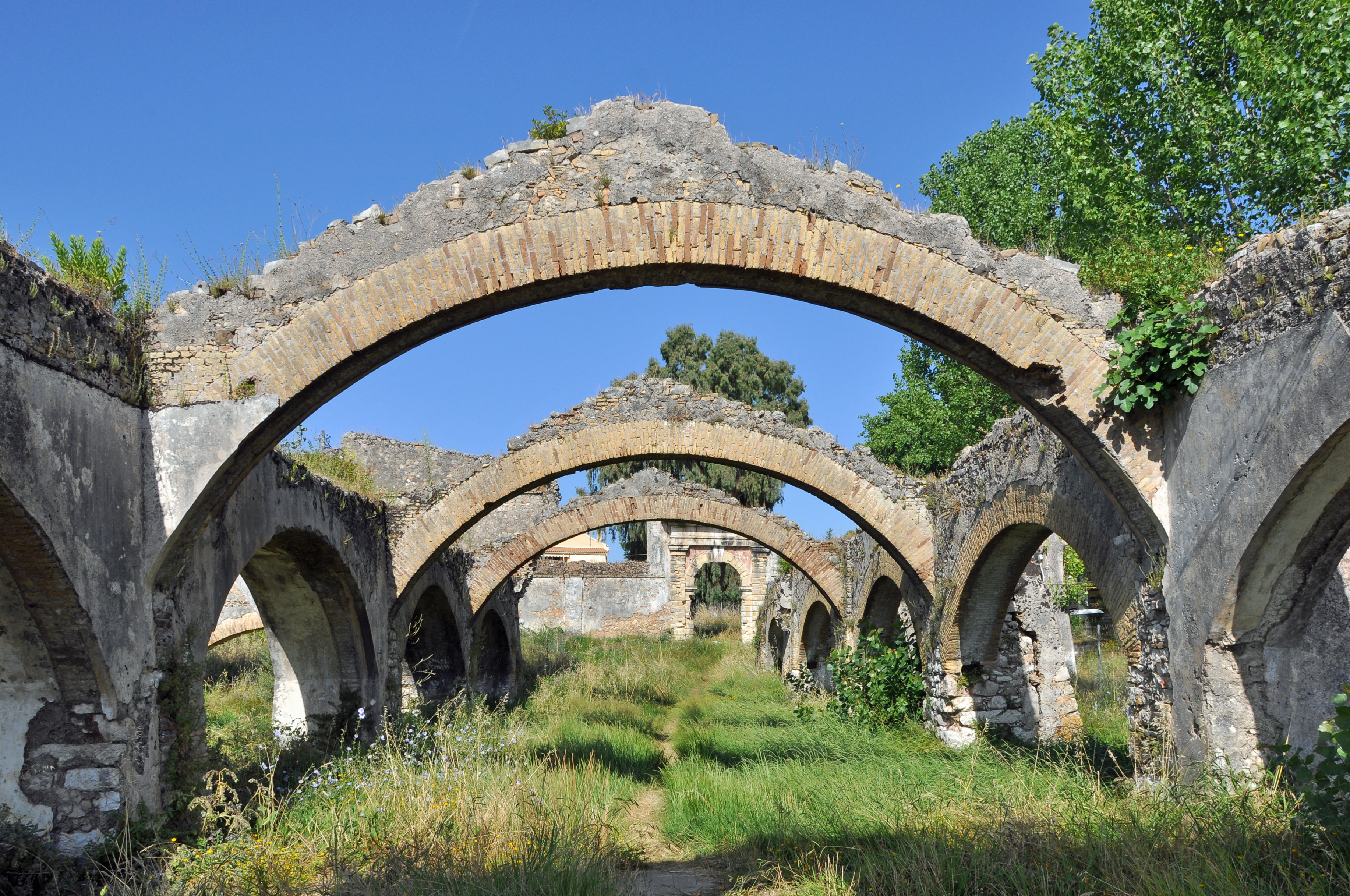 Gouvia (Corfu island, Greece): ruins of the former Venetian shipyard